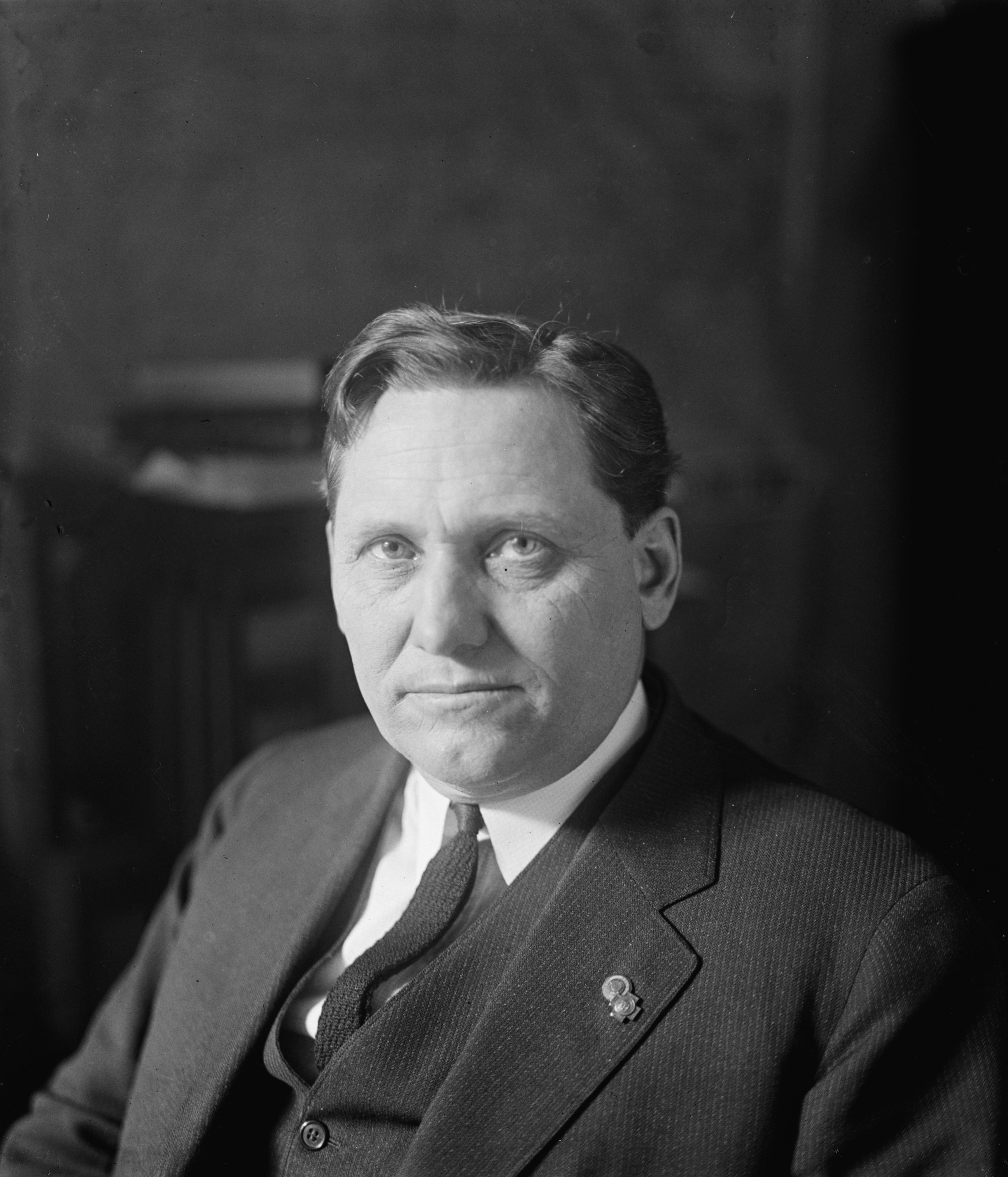 Title: Sen. Smith W. Brookhart, [3/3/24] Abstract/medium: National Photo Company Collection (Library of Congress) Physical description: 1 negative